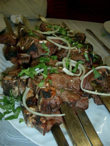 khorovats - Lamb Shashlicks